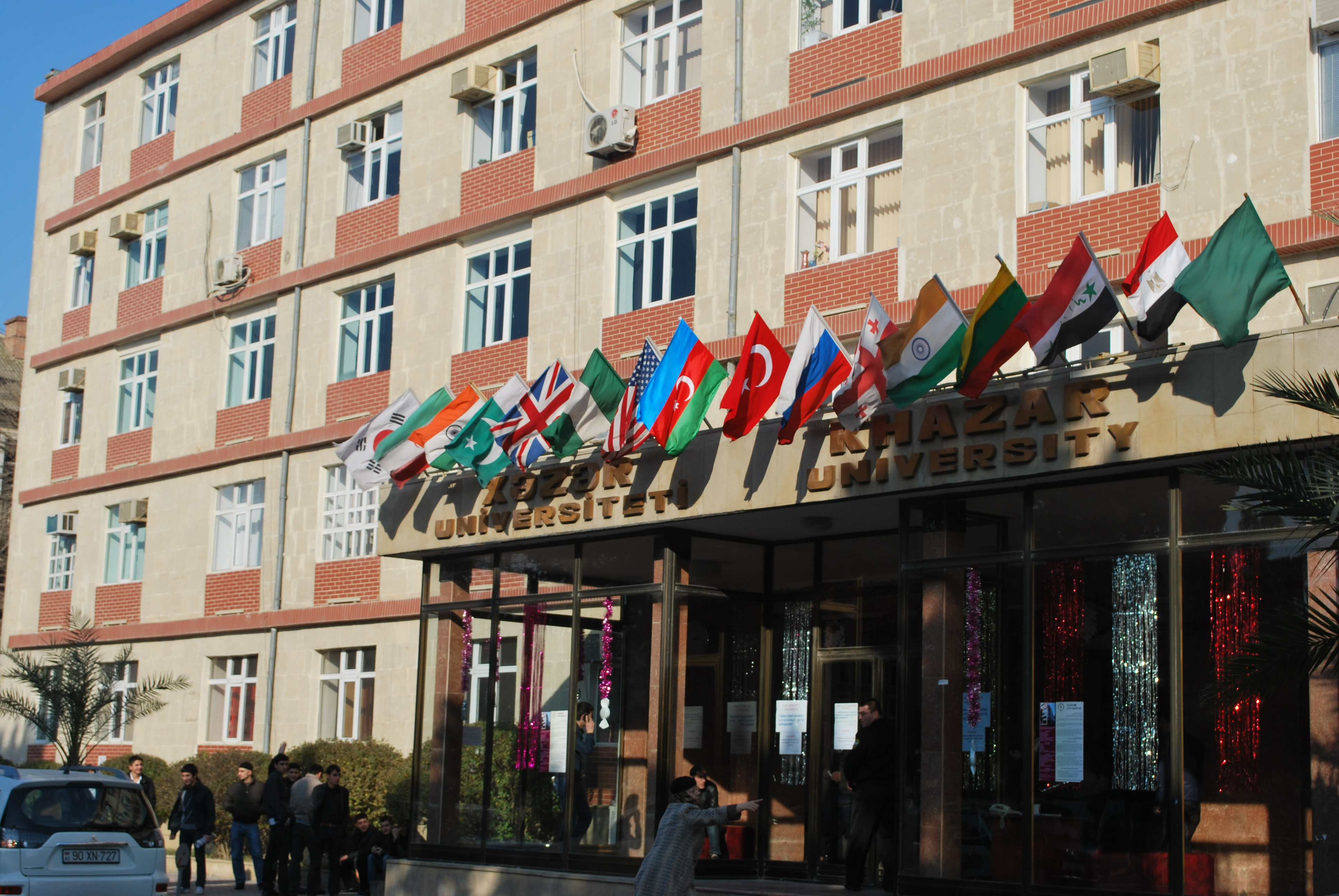 Khazar University Neftchilar Campus building 1